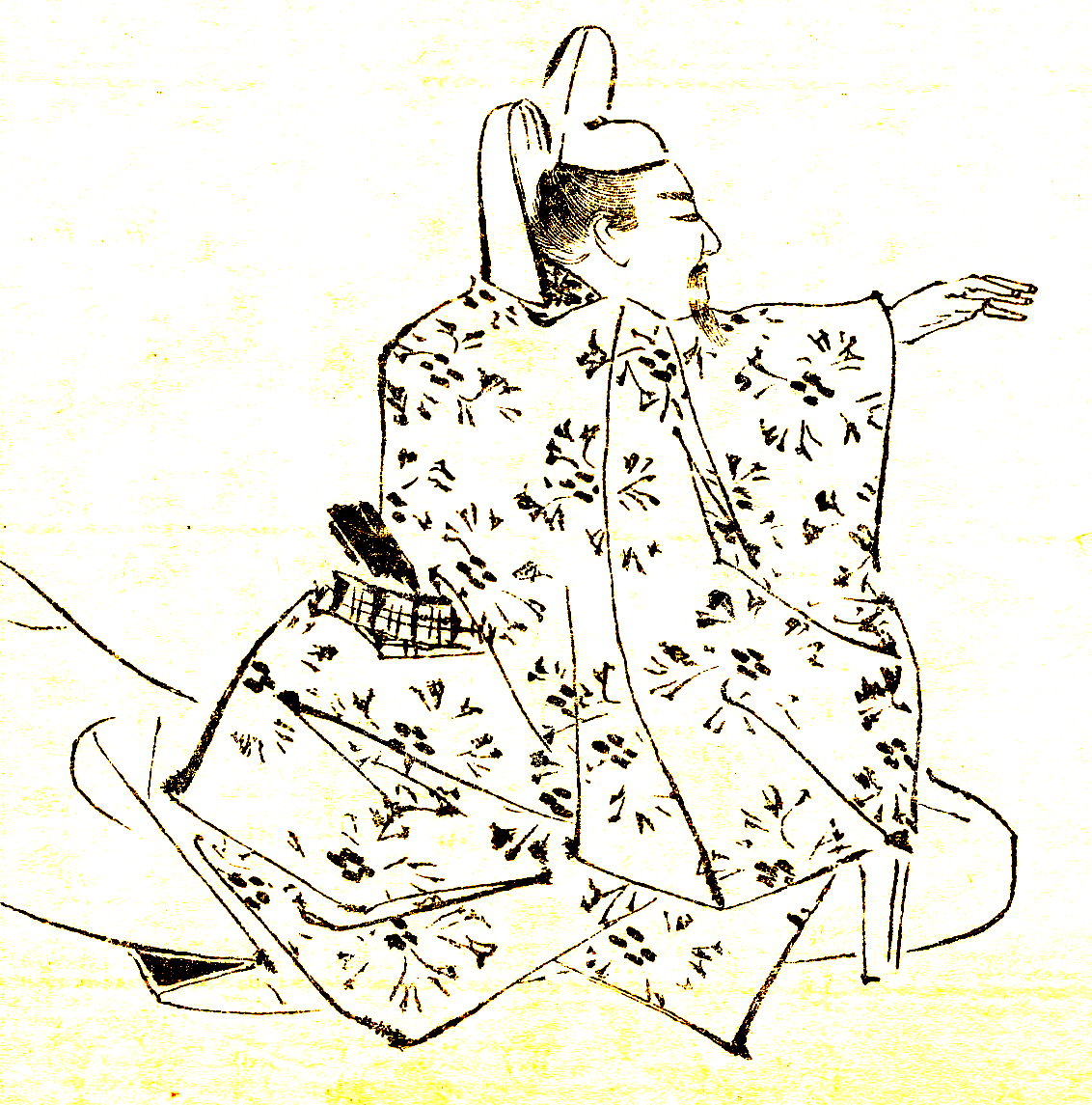 Fujiwara no Nagakata（藤原長方）was a Japanese waka poet and court noble in the late Heian and early Kamakura periods.This picture was drawn by Kikuchi Yosai（菊池容斎） who was a painter in Japan.